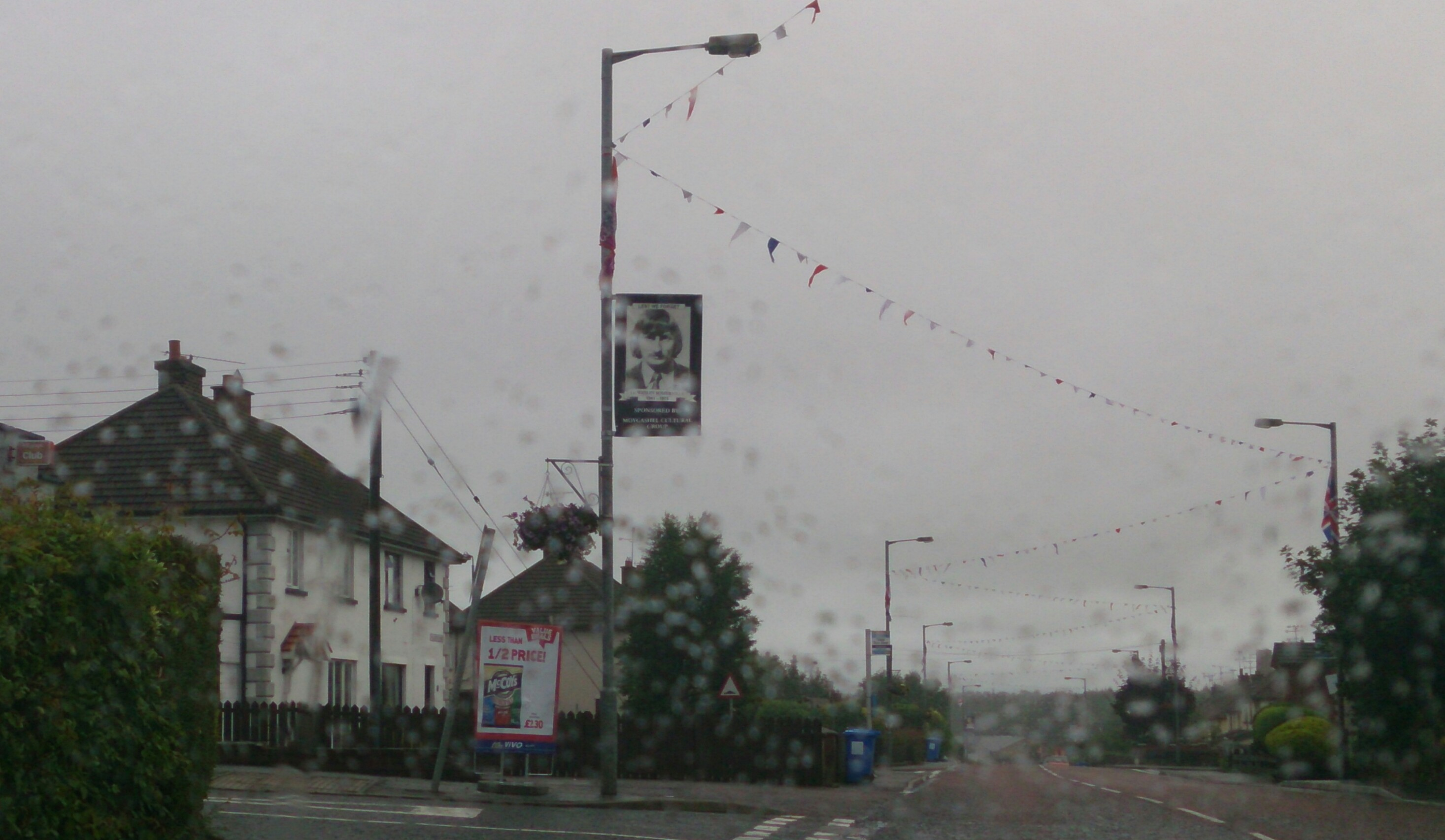 A banner on a lamppost featuring the image of deceased UVF member Wesley Somerville in his home town of Moygashel.